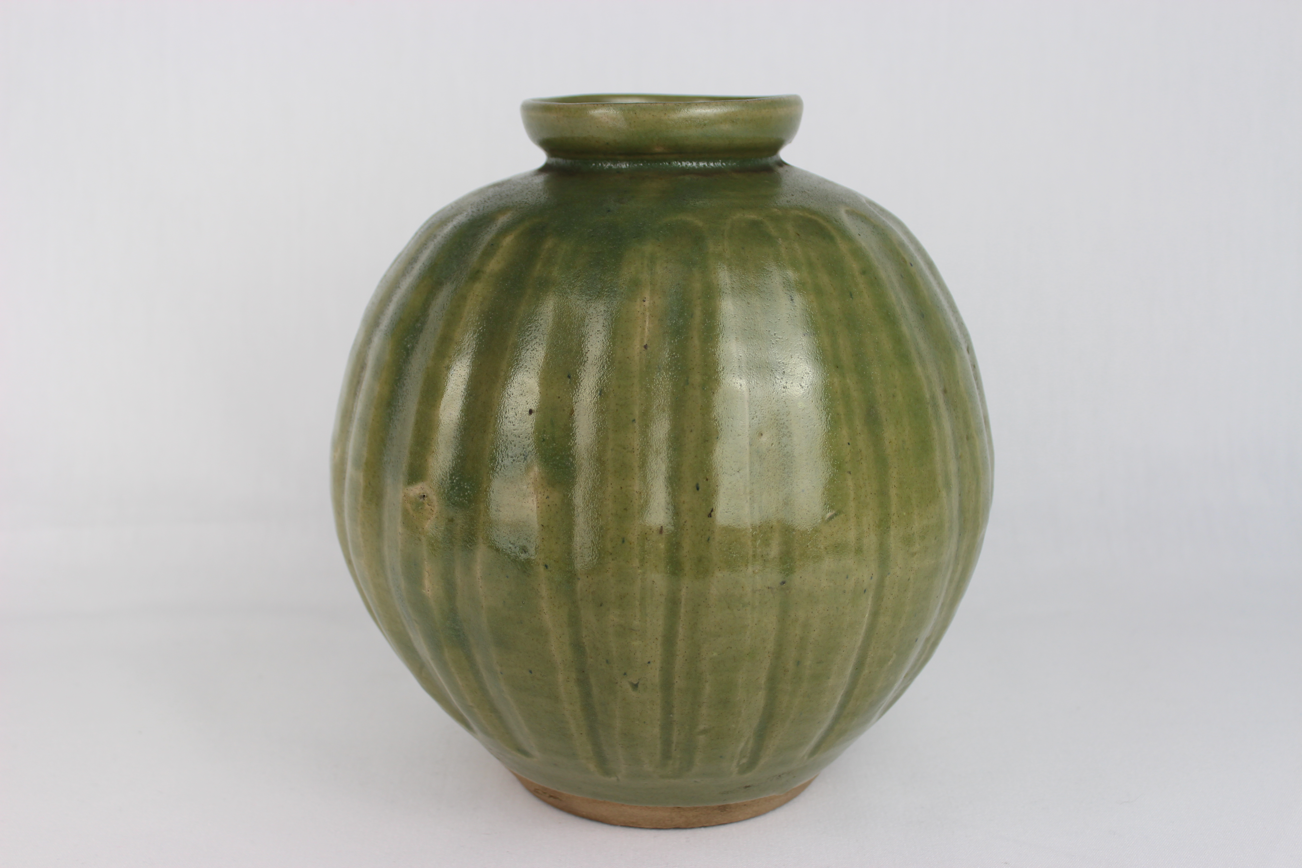 Large green glazed jar with fluted sides. From the W.A. Ismay Studio Ceramics Collection at York Art Gallery